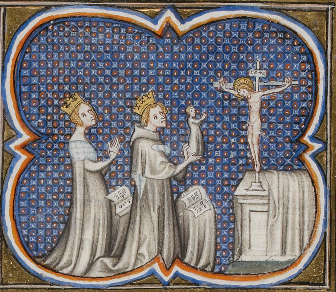 Louis VII of France, with his third wife, Adele of Champagne, shown holding his son.